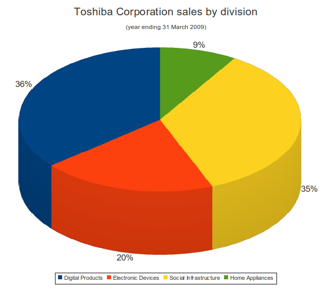 Toshiba Corporation FY09 sales by division (Source: Toshiba Corporation Annual Report 2010).